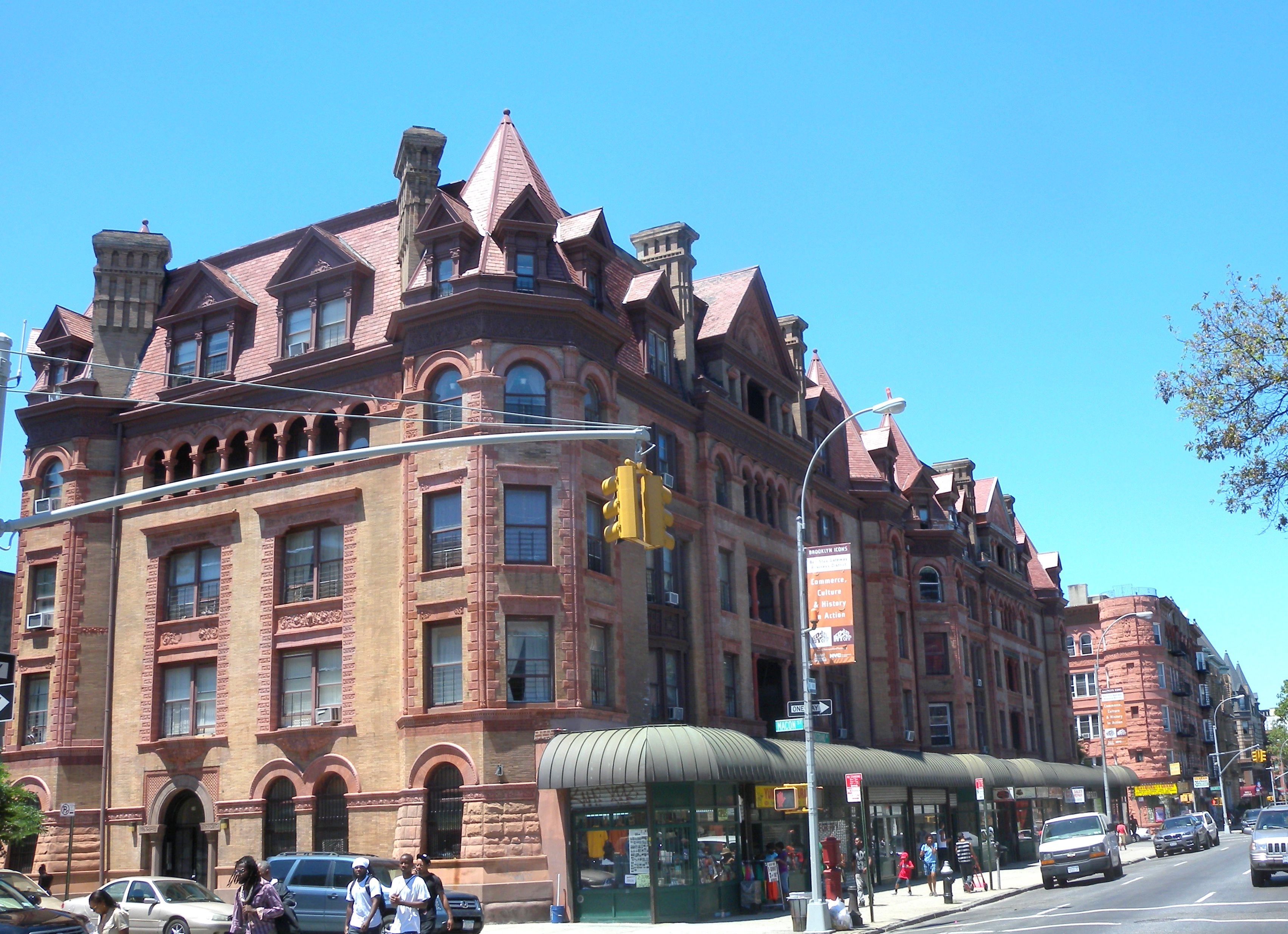 Looking north along Nostrand Avenue across Macon Street at Alhambra Apartments on a sunny midday.